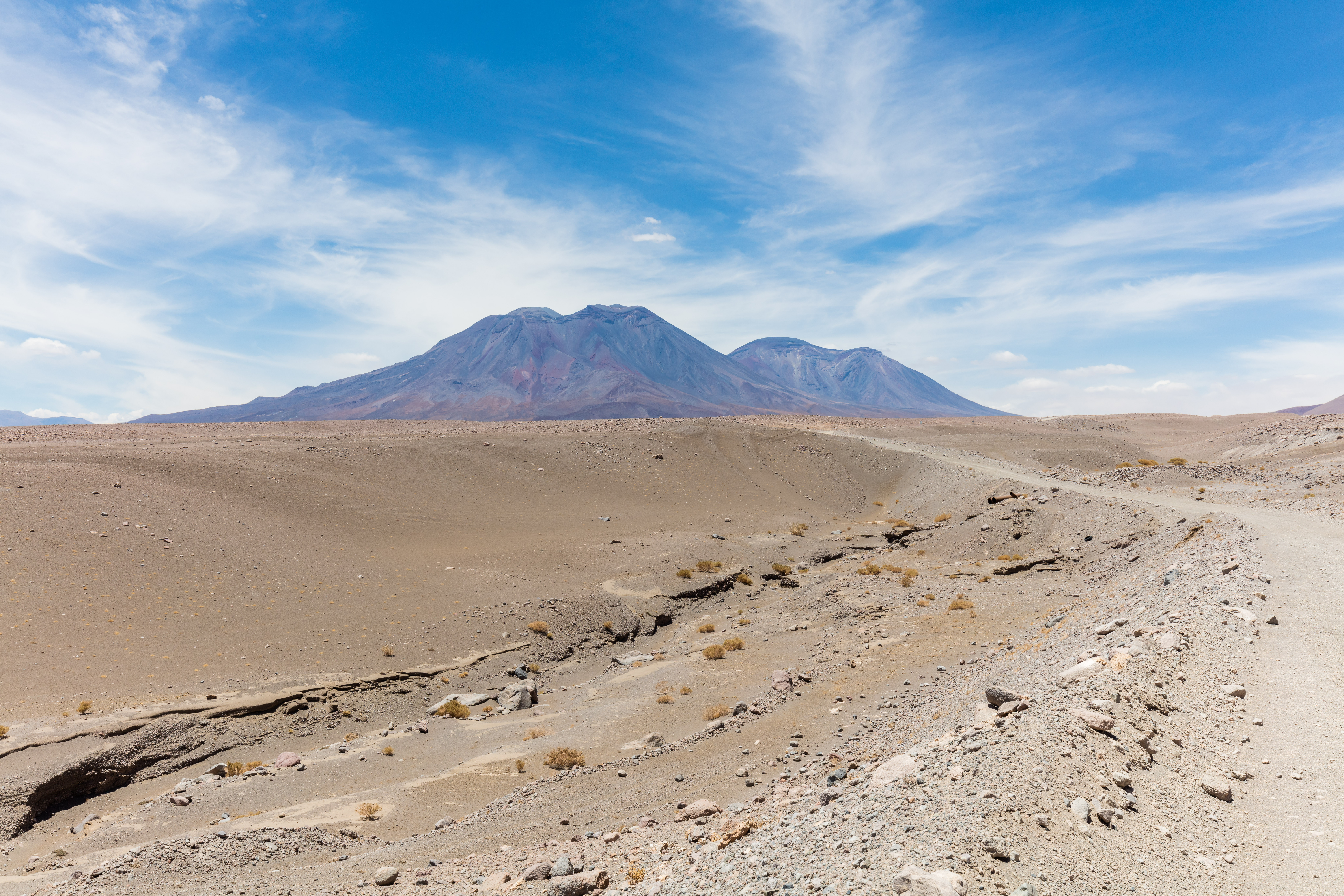 San Pedro Volcano, Chile